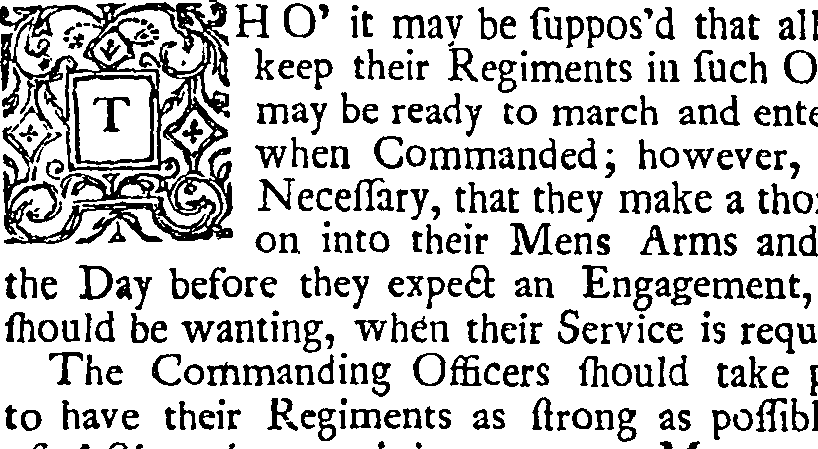 Fleuron from book: A treatise of military discipline; in which is laid down and explained the duty of the officer and soldier, Thro' the several Branches of the Service. By Humphrey Bland, Esq; Lieutenant-Colonel of His Majesty's Own Regiment of Horse.